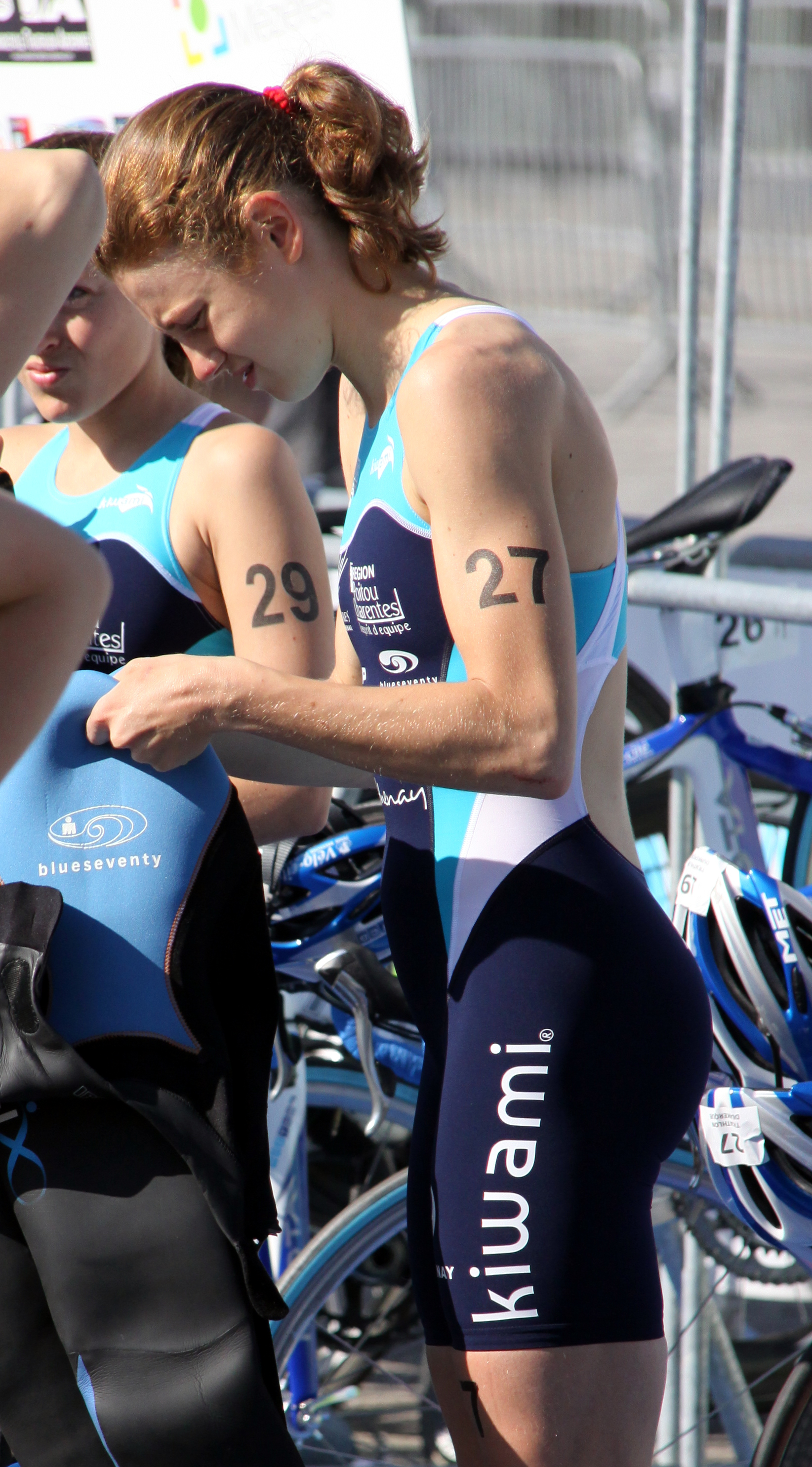 Alice Betto at the Triathlon in Dunkerque 2010